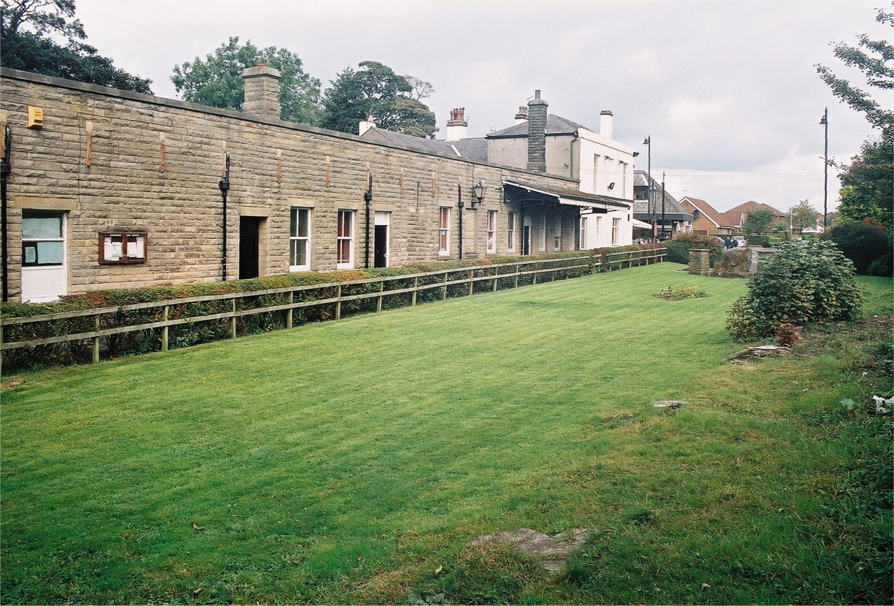 The remains of Longridge railway station, Lancashire, England, which closed to passengers in 1930 and to all traffic in 1967.